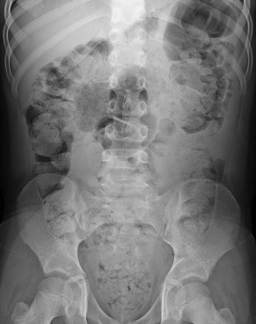 Significant stool throughout the colon of an 8 year old with constipation.